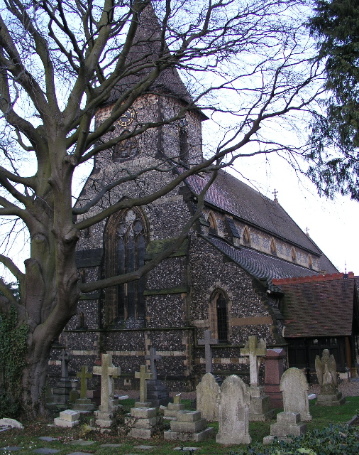 Shirley Parish Church, Croydon, taken 7 February 2005